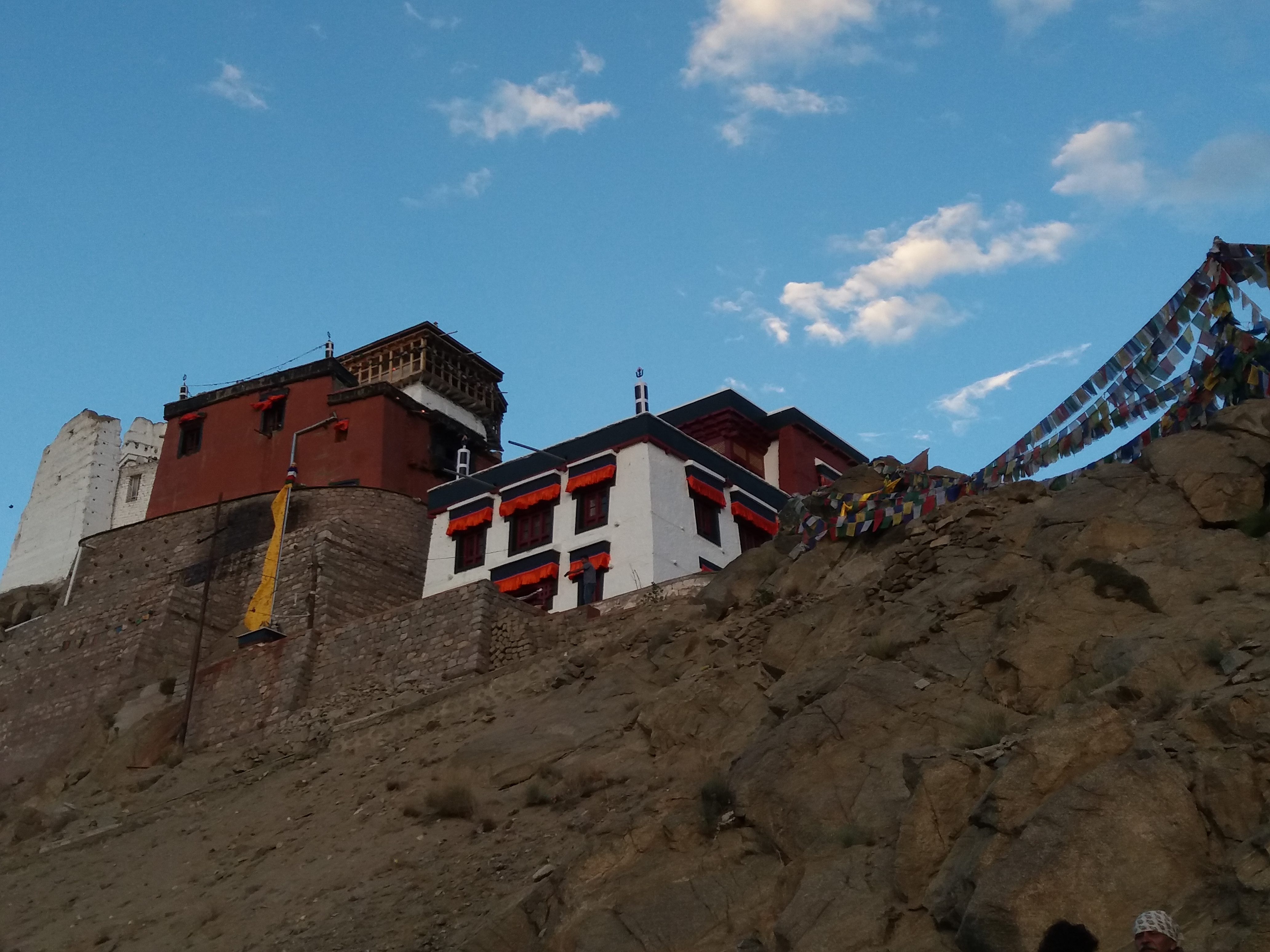 Tsemo temple, Leh, Ladakh.